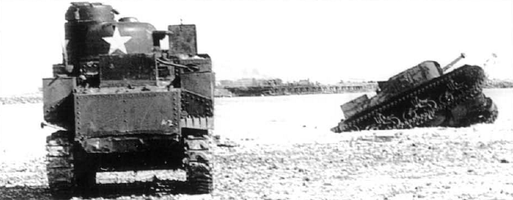 Two M3A5 medium tanks of US Army 193rd Tank Battalion on Butanari Island in the Makin Atoll, firing on Japanese positions during the Battle of Makin